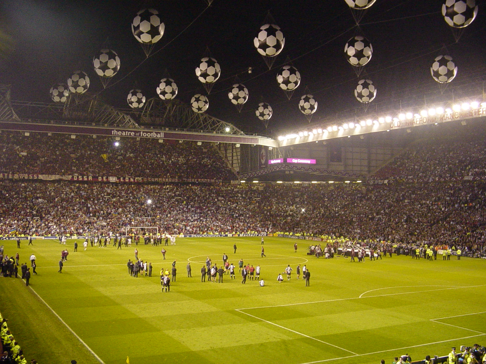 Old Trafford football stadium in Greater Manchester was the venue for the 2003 UEFA Champions League Final. Here it is seen as it was decorated for the match.